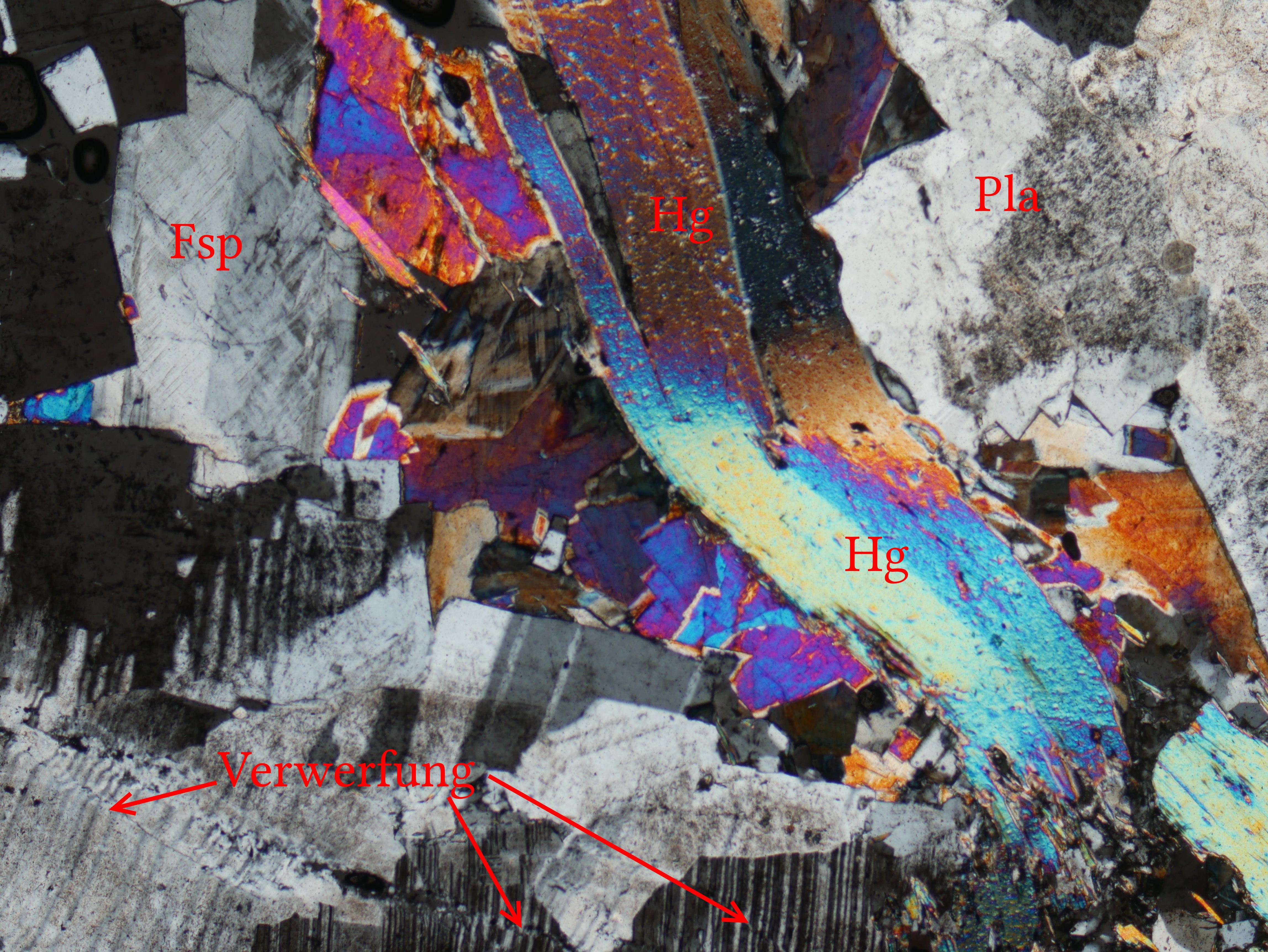 Big Mica and plagioclase and feldspar in a thin-section of a pegmatite from the Lofoten area. Width: ca. 3.3 mm. Crossed polarizers. Verwerfung means inconformity